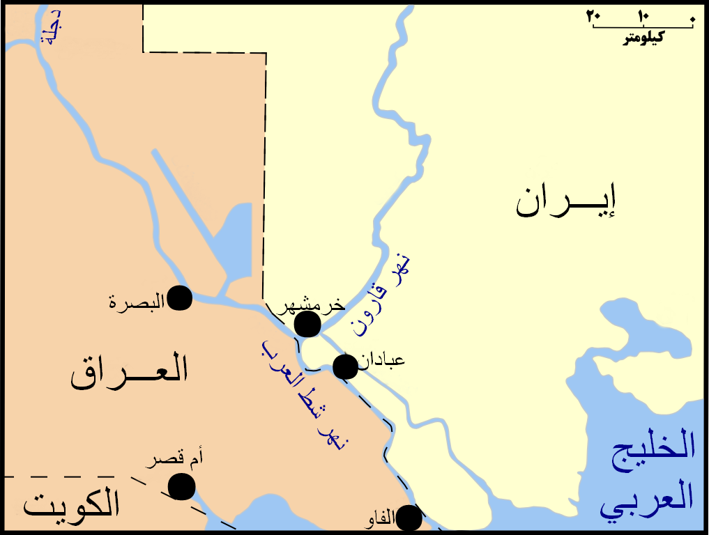 Shatt el Arab with Asmak Lake (Fish Lake, Fish Canal) near Basra